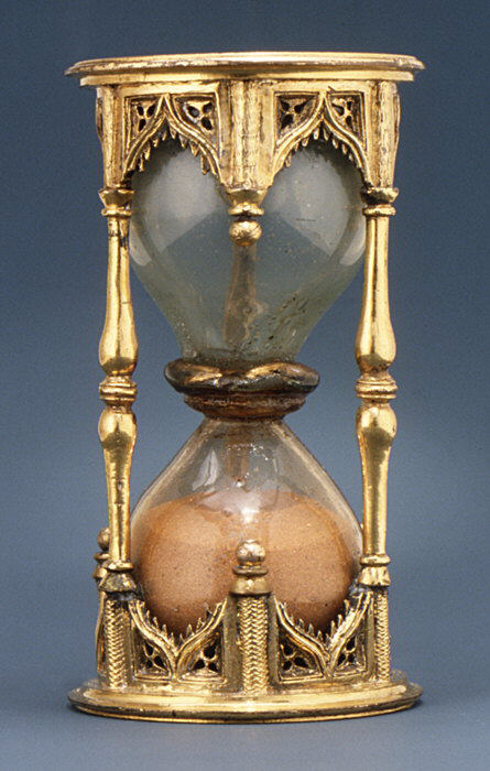 German; Half-hour sand glass; Horology